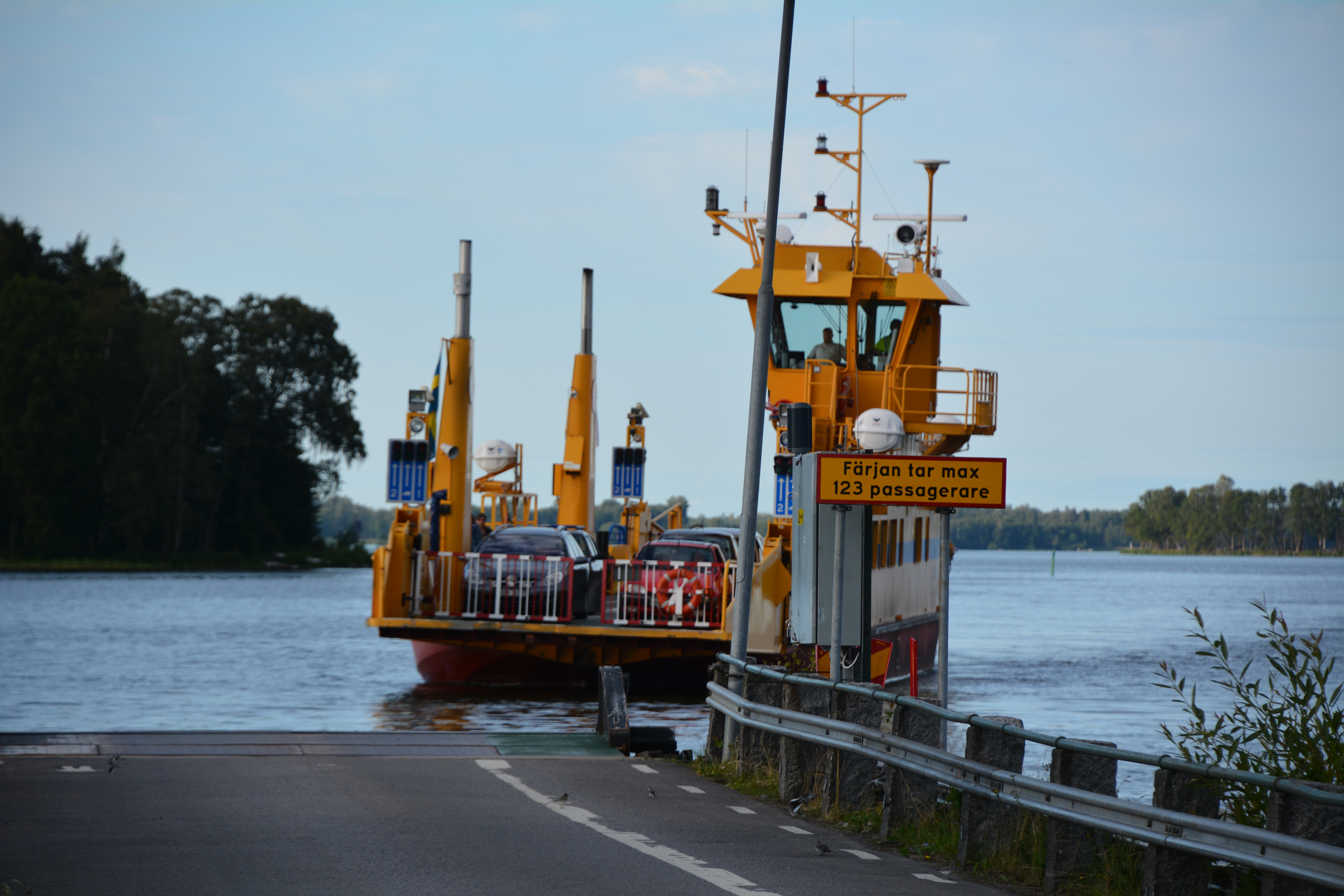 M/S Sedna, car ferry between Hampetorp and Vinön in Sweden